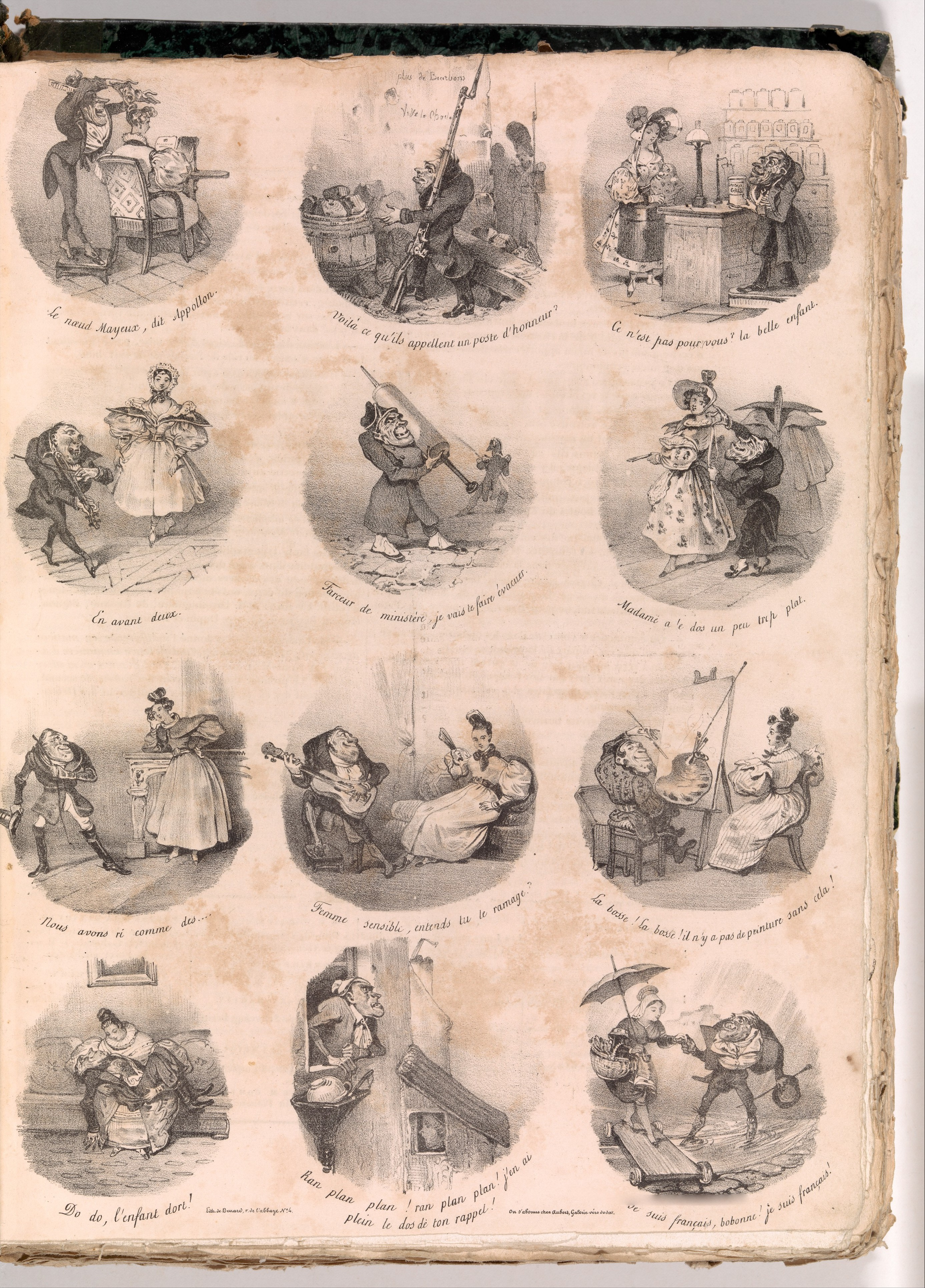 Print; Prints